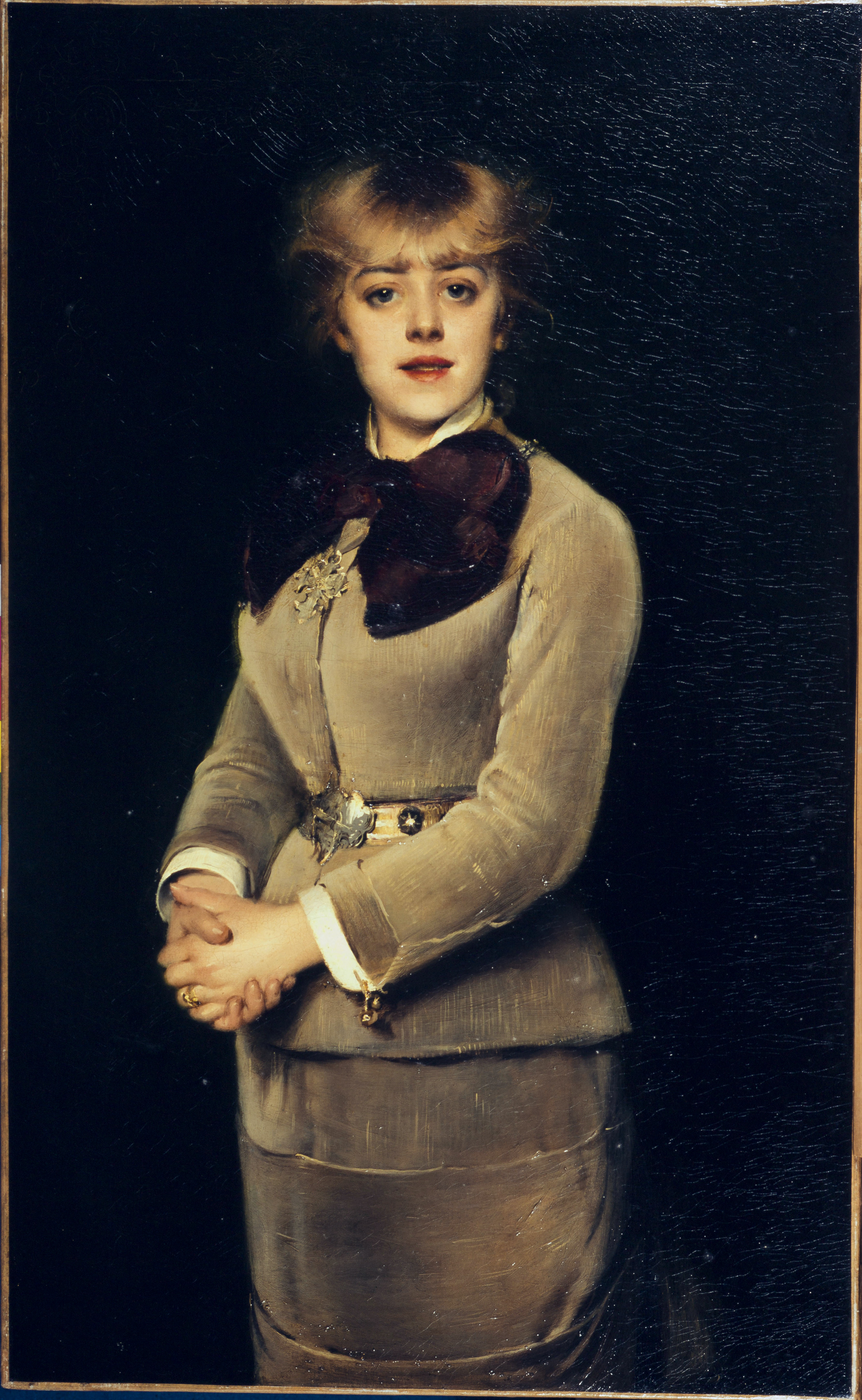 "Portrait of Jeanne Samary" (French actress)